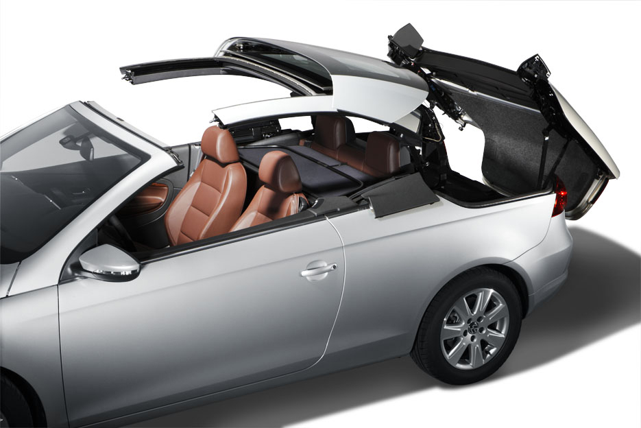 VW Eos Retractable Hardtop